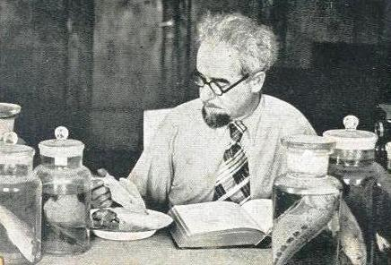 Dr. Walter Steinitz, physician and zoologist